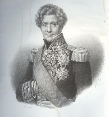 Count Louis François DEFENDANT, lieutenant-general, born in Ballon (Sarthe), (France) on February 19, 1769